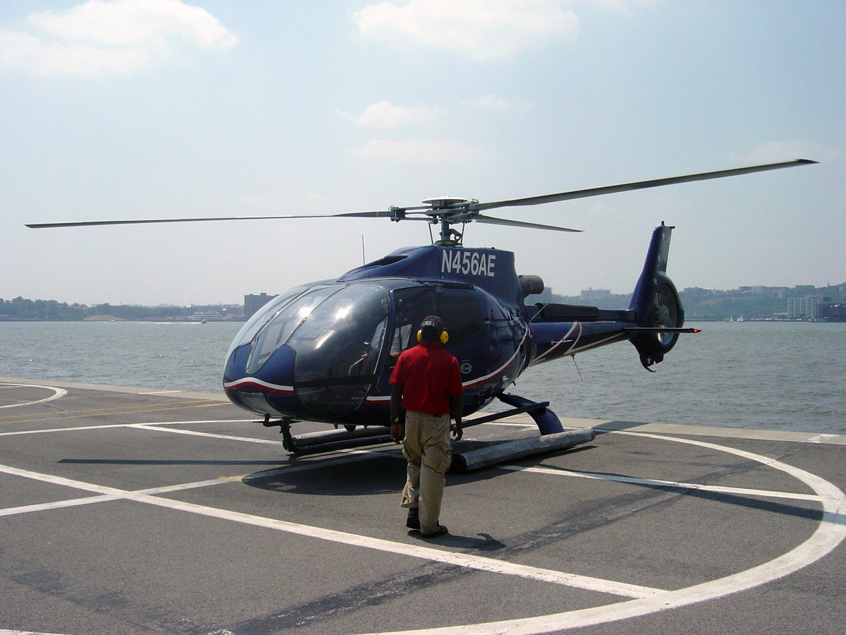 Eurocopter EC130 B4, used in New York.